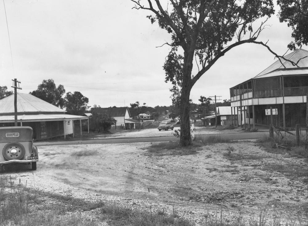 Risien Street, Blair Athol, 1950. View of Risien Street, showing the hotel on the right.